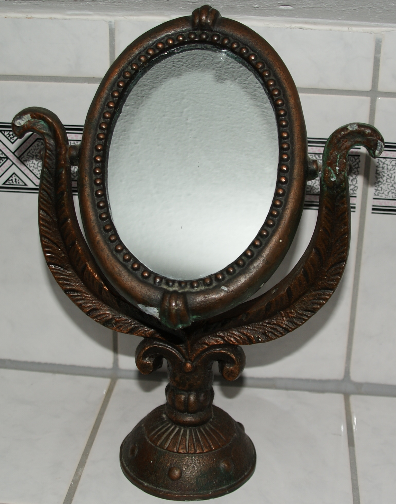 Old make-up mirror.